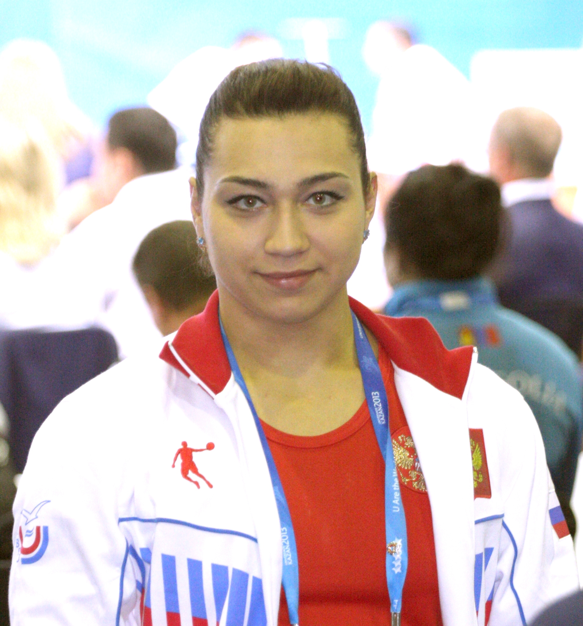 Nadezhda Yevstyukhina at Universiade-2013